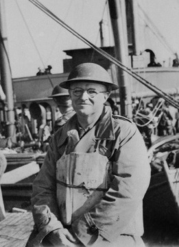 Australian War Memorial image P03568.001. John Linton Treloar on board a ship during the evacuation of Allied forces from Greece in April 1941